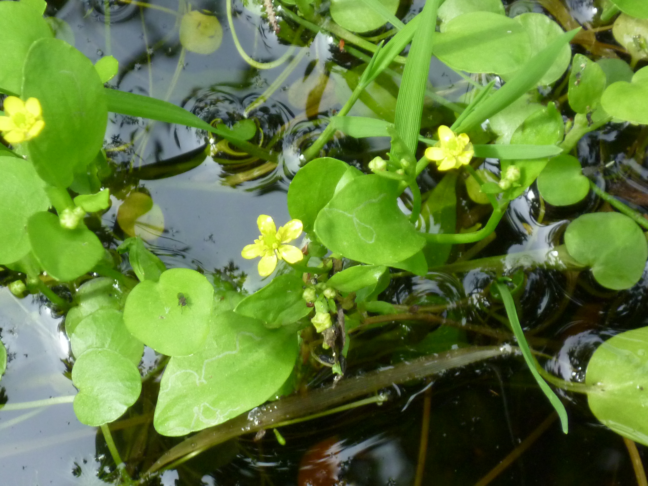 Flowering of the rare Adder's-tongue Spearwort ('Badgeworth Buttercup' - Ranunculus ophioglossifolius) at an Open Day (2012) at the Gloucestershire Wildlife Trust Badgeworth nature reserve (SSSI) in Gloucestershire (England).